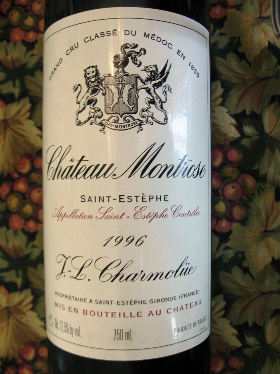 Chateau Montrose Label from the 1996 vintage. Producer from Judgement of Paris wine tasting.